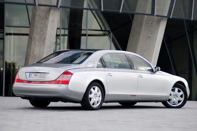 Maybach 62 in front of Mercedes-Benz Museum, Stuttgart